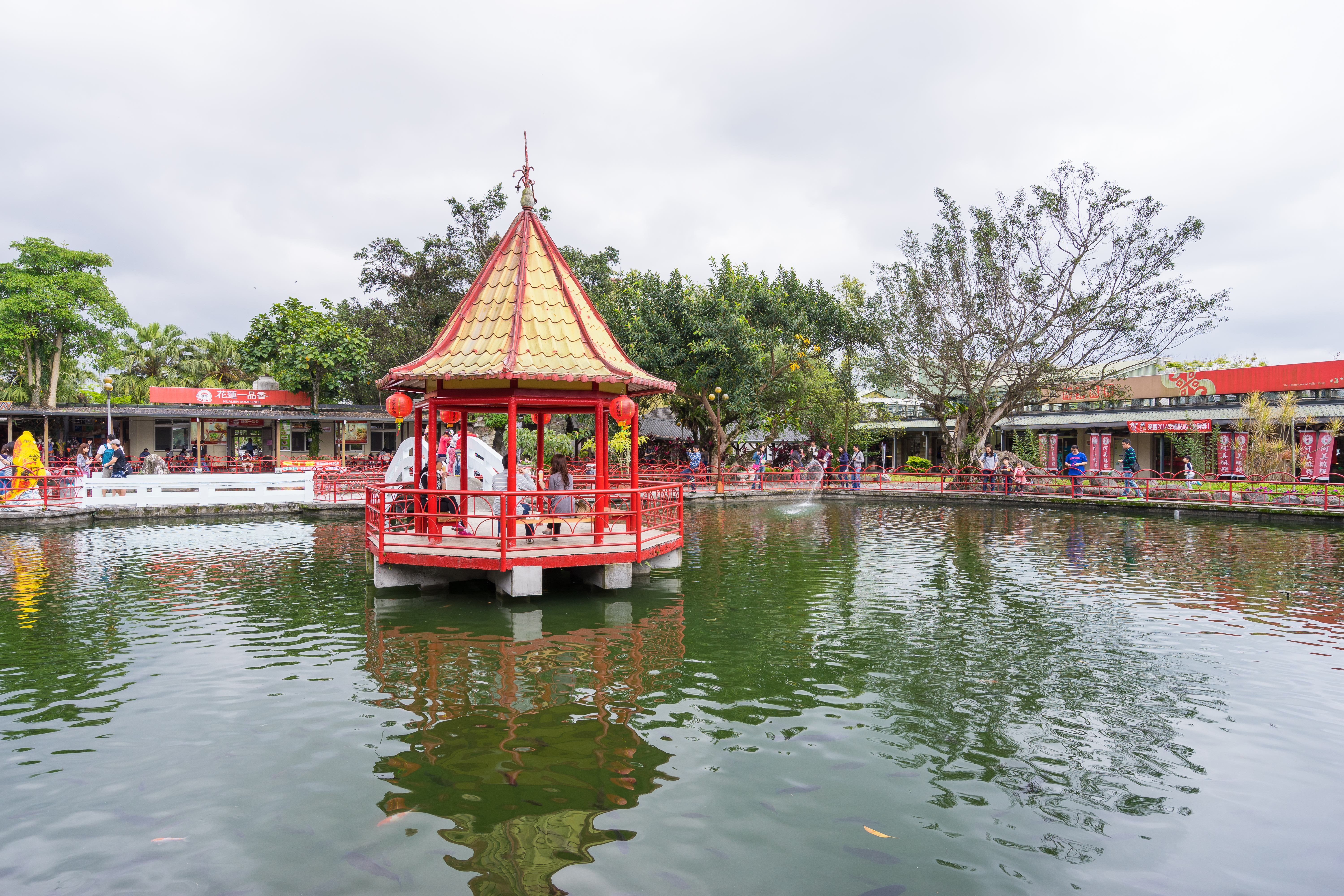 Hualien Sugar Factory